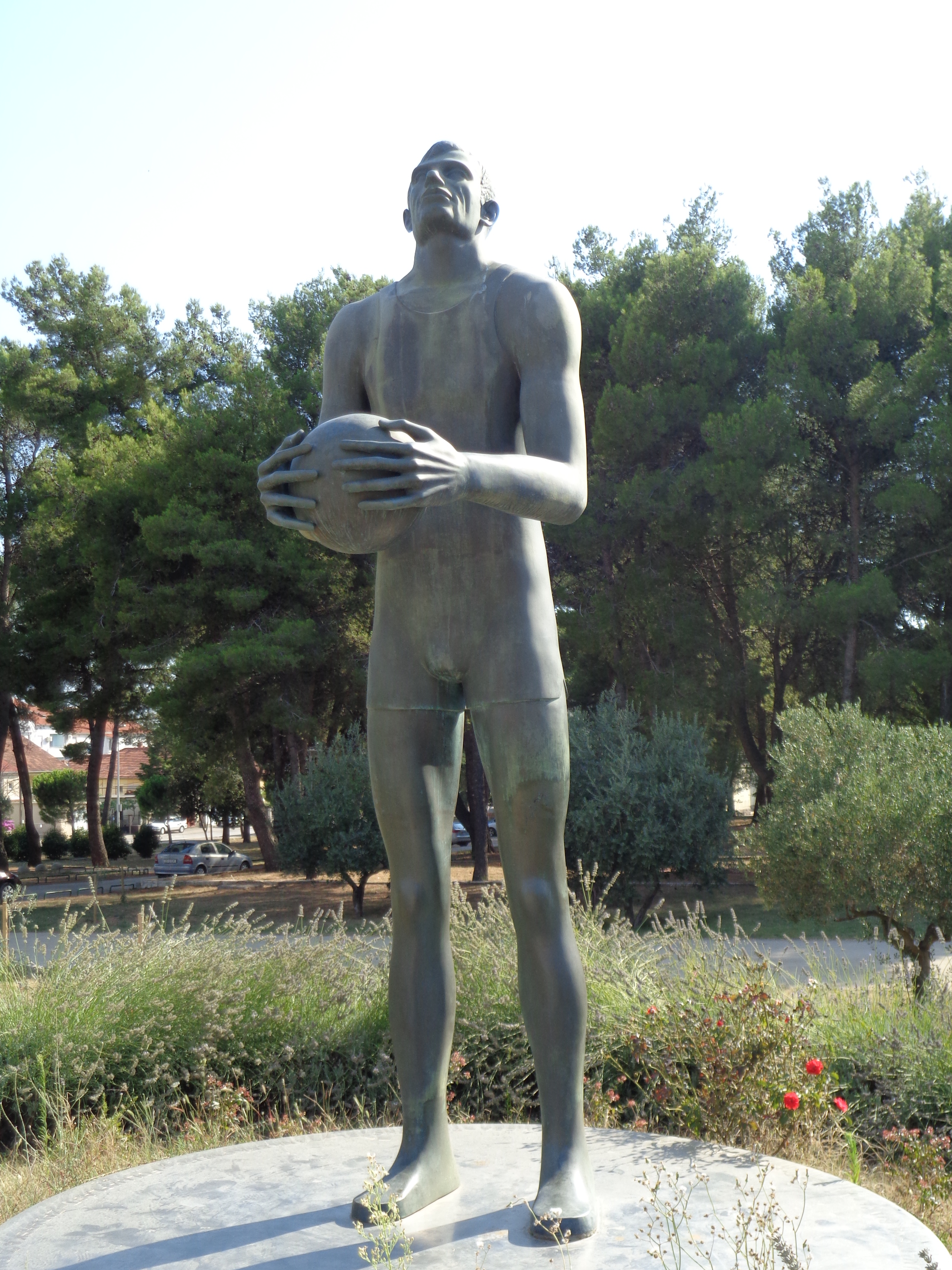 Statue of Krešimir Ćosić, Croatian basketball player, at Višnjik Sports Centre, Zadar, Croatia - northeast view